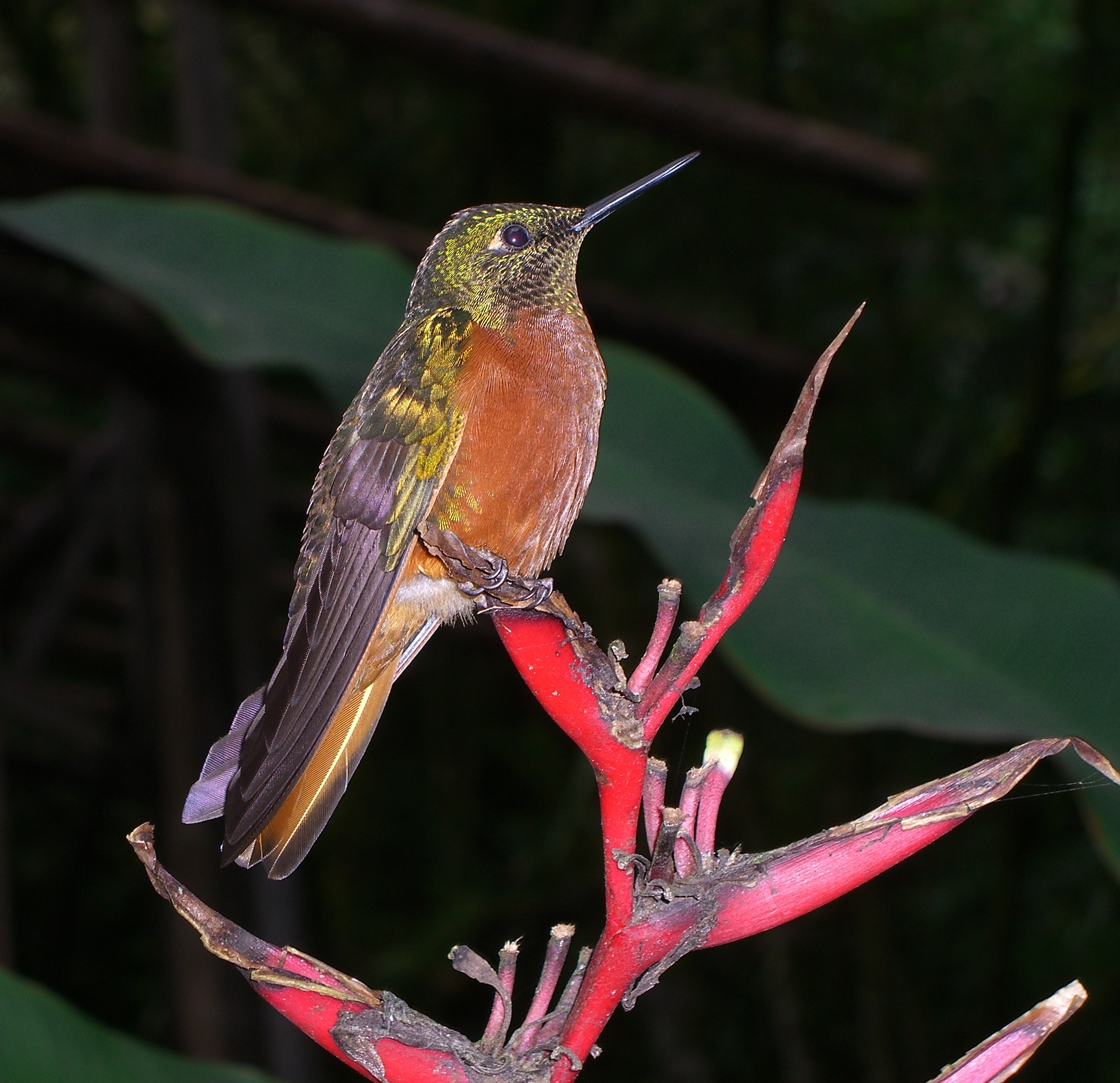 Description: Chestnut-breasted Coronet (Boissonneaua matthewsii)